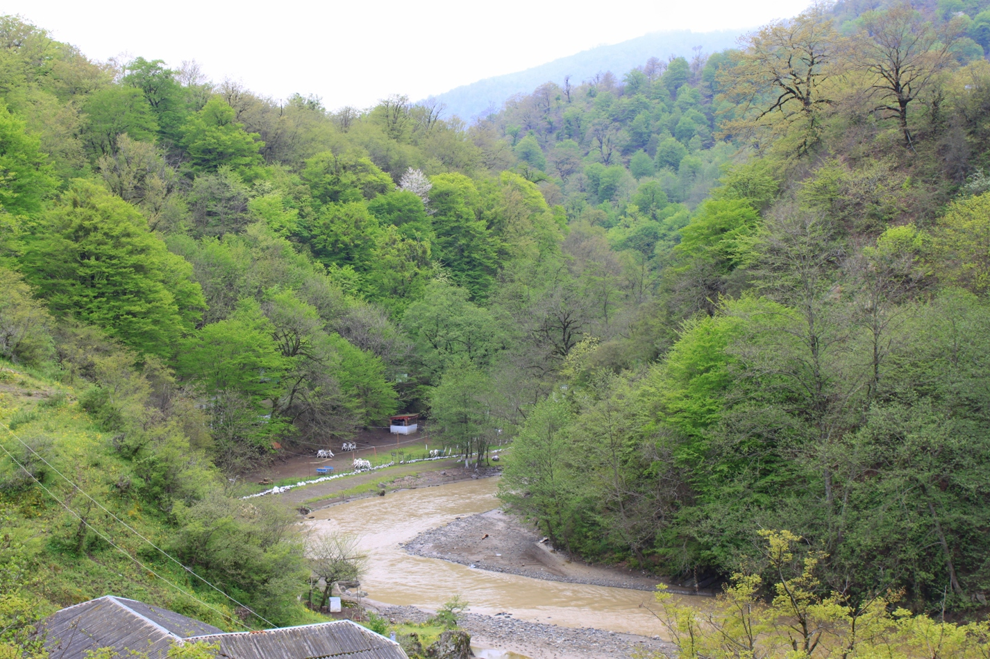 Masalli Azerbaijan republik